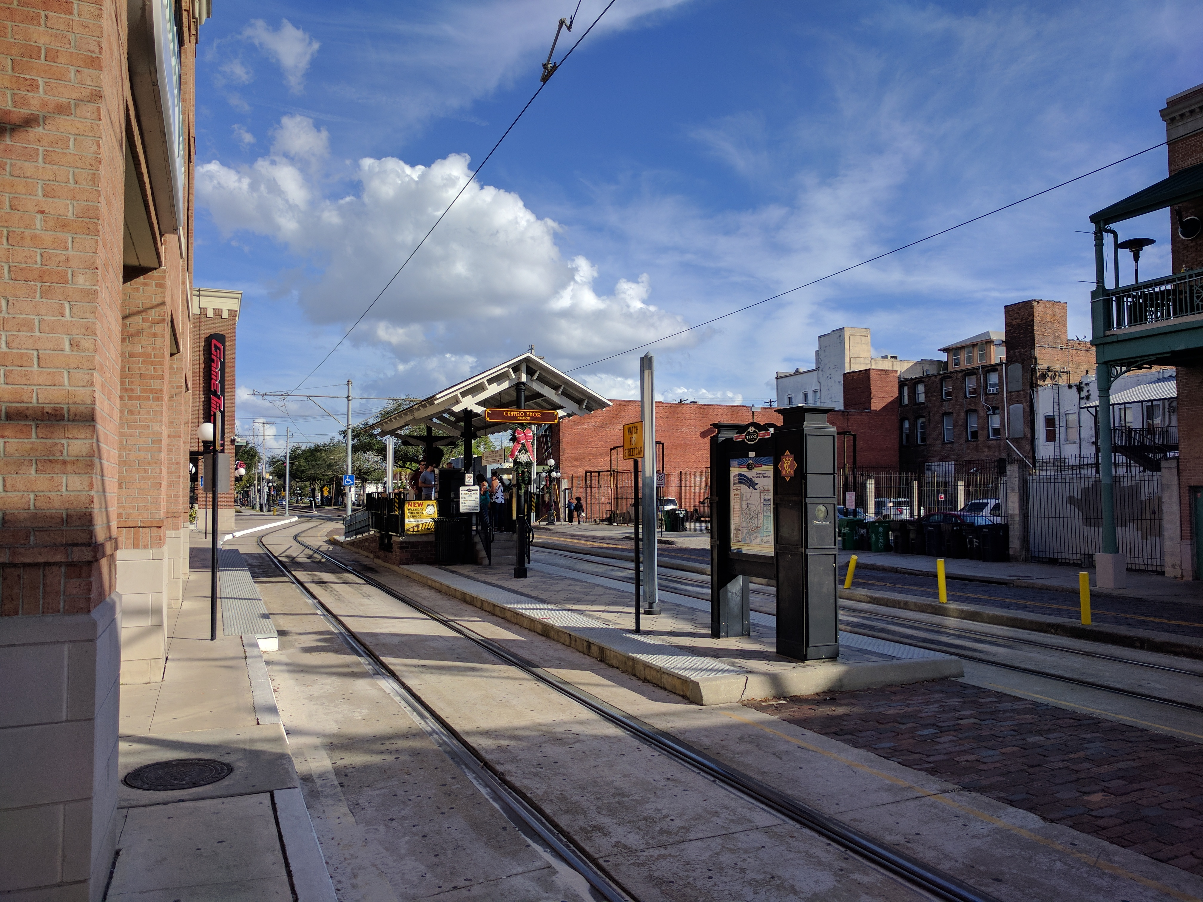 Centro Ybor station on the TECO streetcar system in the Ybor City neighborhood of Tampa.